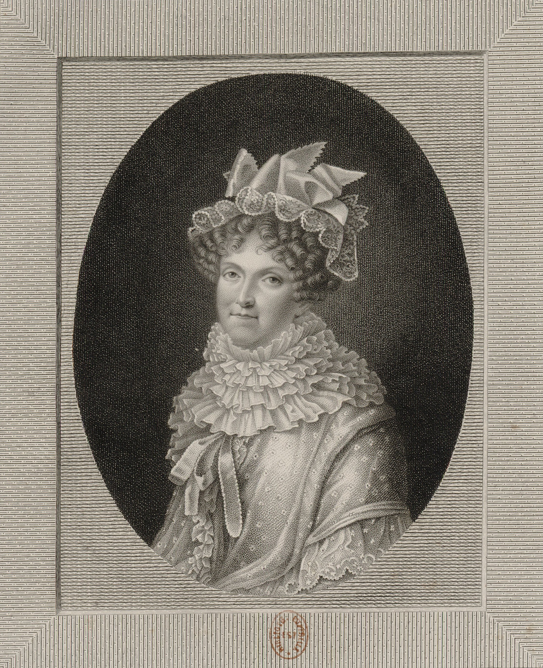 Portrait of Louise Marie Adelaïde de Bourbon, Dowager Duchess of Orléans